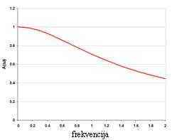 sdasfa